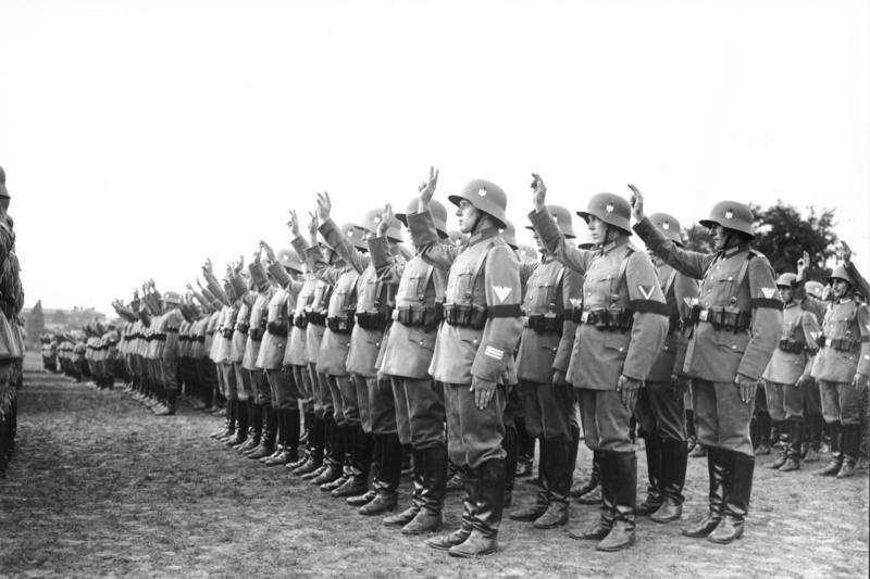 The ceremonial swearing-in of the Reichswehr to the new Reich President Adolf Hitler! Aug. 1934. The teams with mourning ribbons swear oaths to the new Reich President Adolf Hitler.See also: File:Bundesarchiv Bild 102-16107, Vereidigung von Reichswehr-Soldaten auf Hitler.jpg